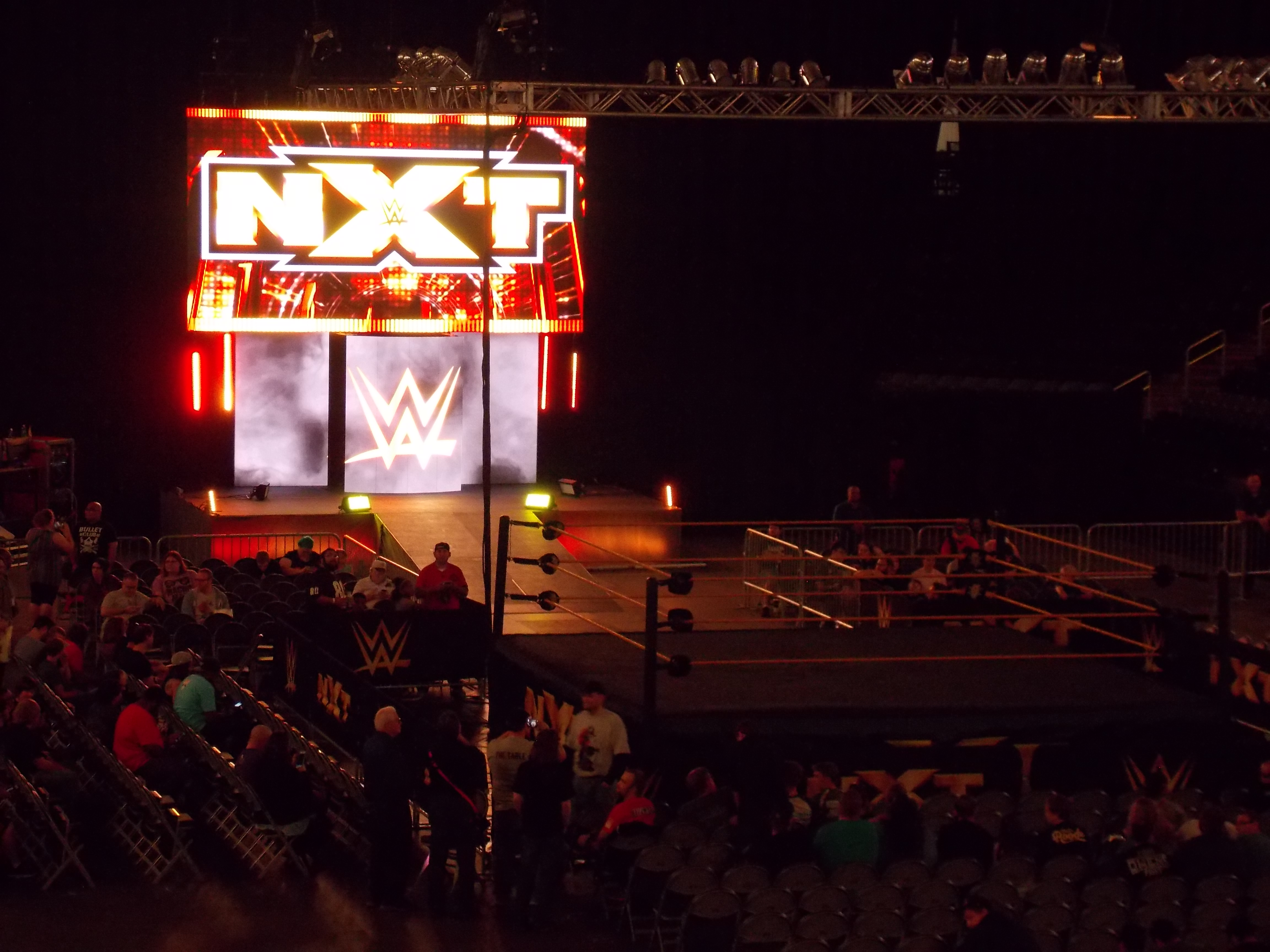 WWE NXT Live Event in Omaha, Nebraska, USA on Saturday, September 17, 2016